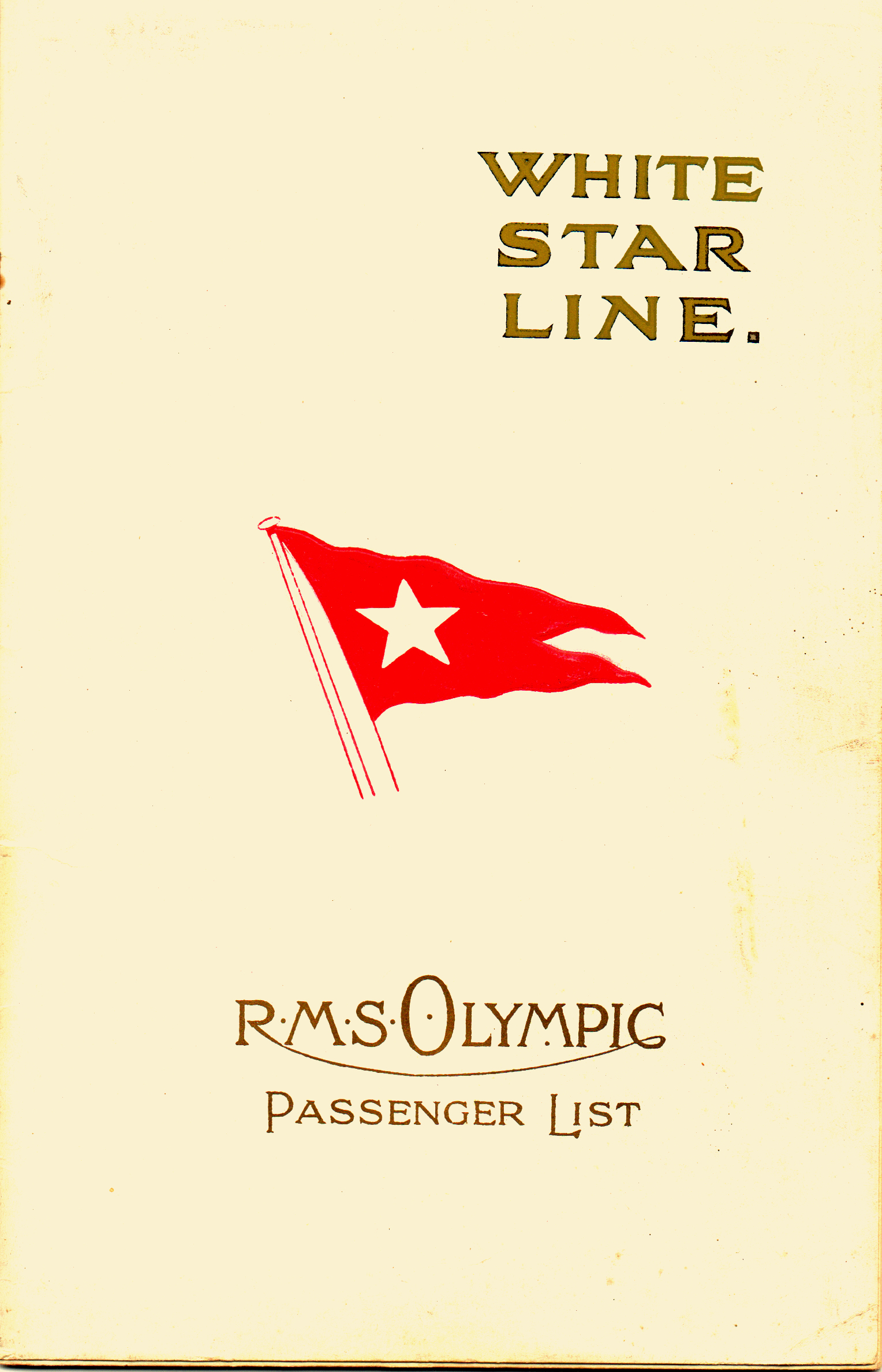 Cover of Passenger List (First Class) for the White Star Line steamer RMS "Olympic" for April 28, 1923 voyage from New York to Southampton.